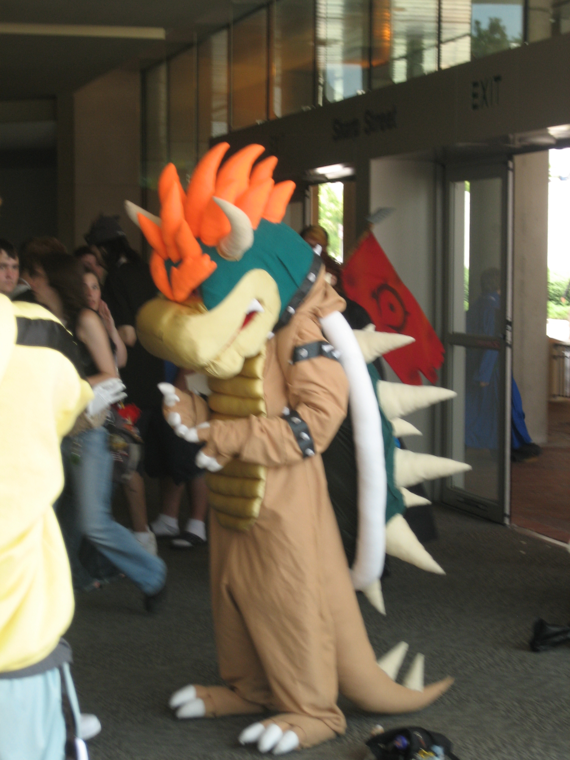 Bowser cosplay Believe it or not, there is a cute girl in that awesome Bowser costume.